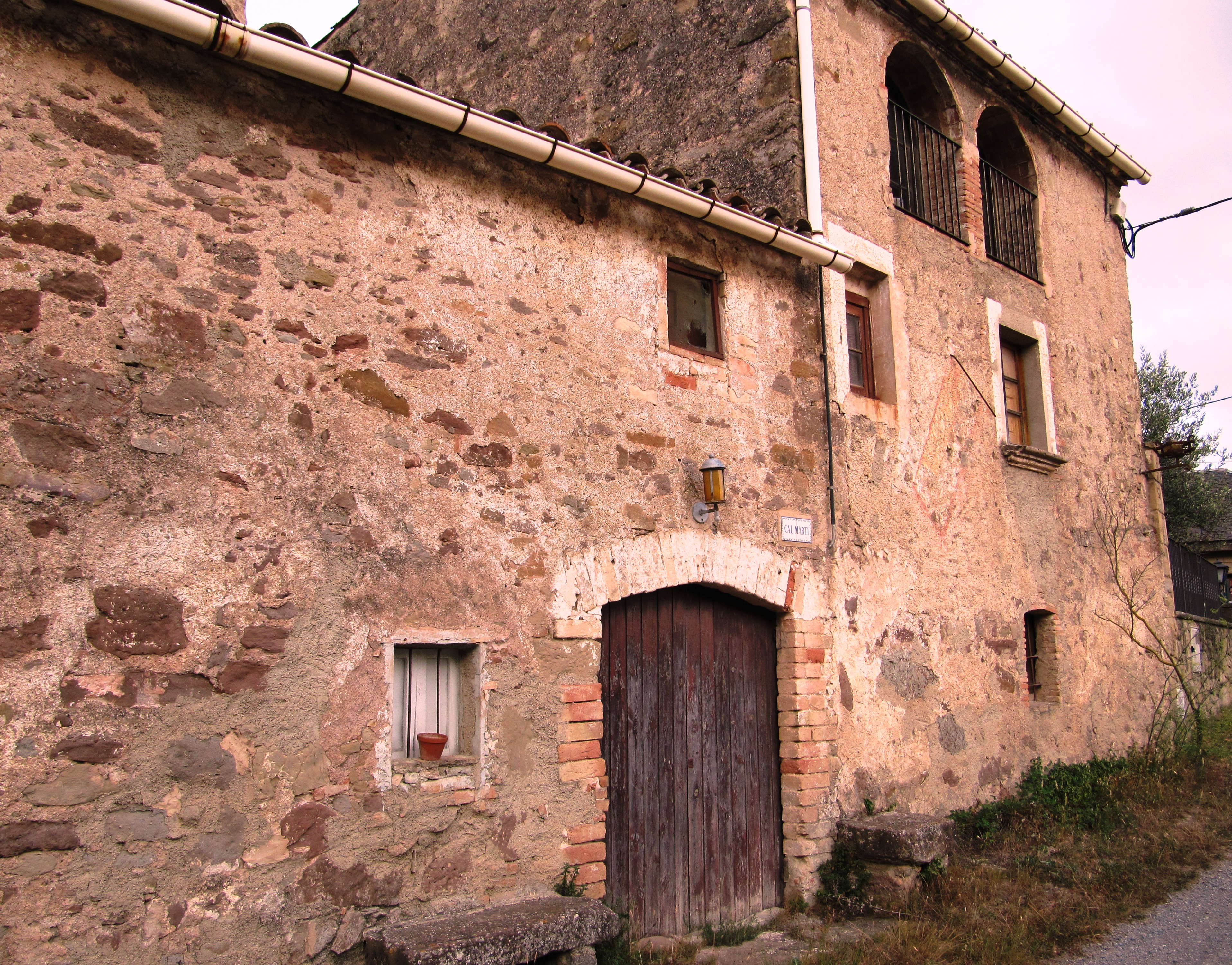 Cal Martí at Granera.